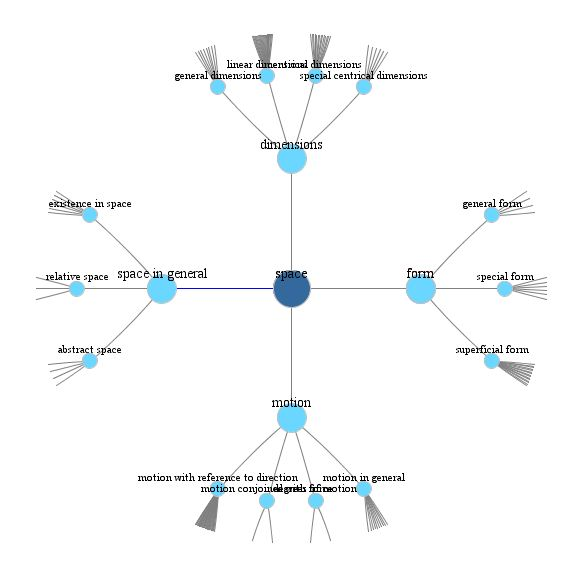 Hiperbolic tree with the senter in "Space"